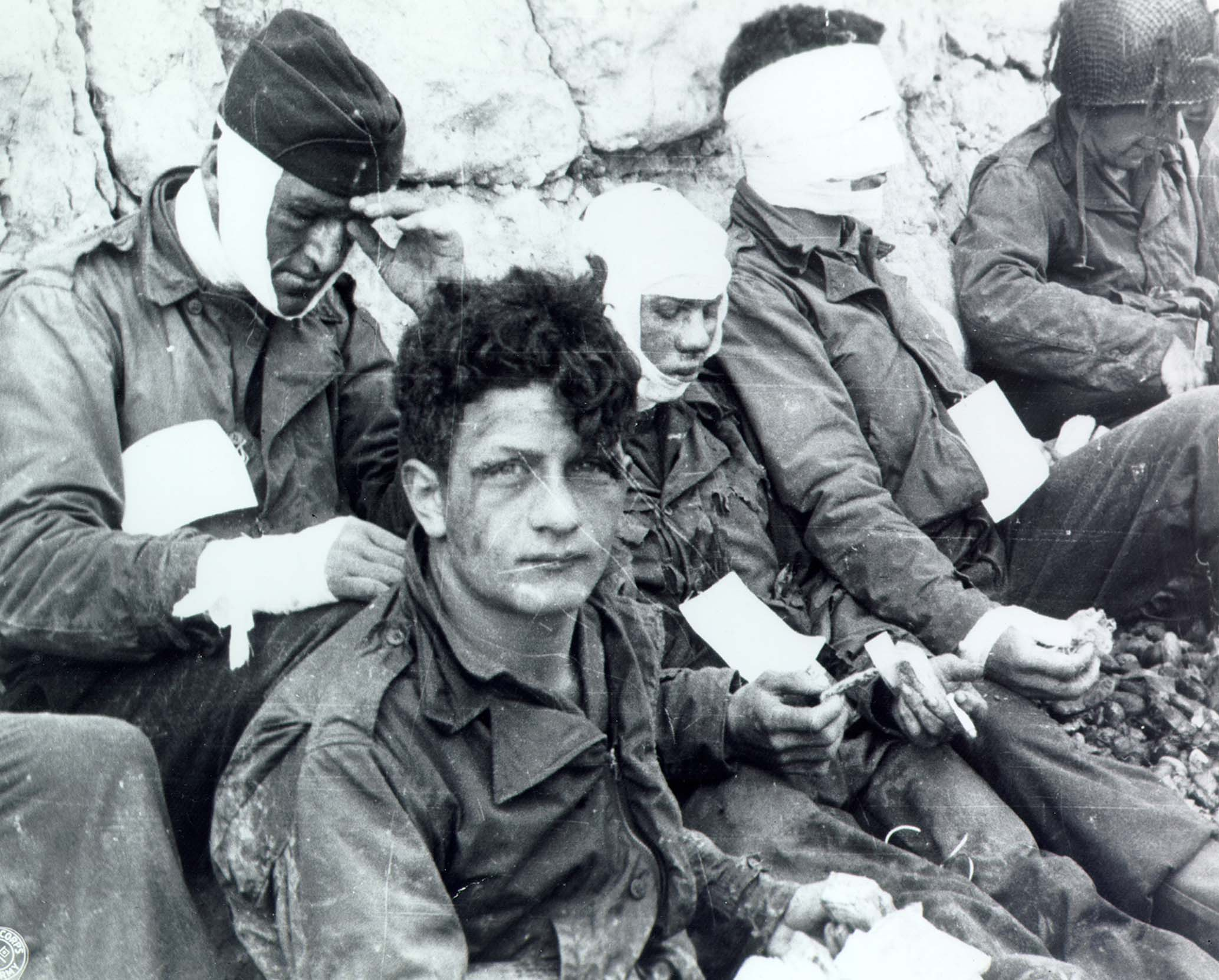 American assault troops of the 3d Battalion, 16th Infantry Regiment, 1st U.S. Infantry Division, who stormed Omaha Beach. Colleville-sur-Mer, Normandy, France, 6 June 1944. Original description Description from "Division Matrix 1st Infantry Division Images" / U.S. ARMY CENTER OF MILITARY HISTORY: SC 189910-S American assault troops of the 3d Battalion, 16th Infantry Regiment, 1st U.S. Infantry Division, who stormed Omaha Beach, and although wounded, gained the comparative safety offered by the chalk cliff at their backs. Food and cigarettes were available to lend comfort to the men at Collville-Sur-Mer, Normandy, France. 6/6/44. Description from ARC catalog (ARC Identifier 531187 / Local Identifier 111-SC-189910): American assault troops of the 16th Infantry Regiment, injured while storming Omaha Beach, wait by the Chalk Cliffs for evacuation to a field hospital for further medical treatment. Colleville-sur-Mer, Normandy, France, 06/06/1944. Description from "Normandy Invasion, June 1944", Overview and Special Image Selection, history.navy.mil website : wounded men of the 3rd Battalion, 16th Infantry Regiment, 1st Infantry Division, receive cigarettes and food after they had stormed "Omaha" beach on "D-Day", 6 June 1944. Description from Archives Normandie 1939-45 (ID p012901): Bataille de Normandie : été 1944 : Jeunes blessés américains.